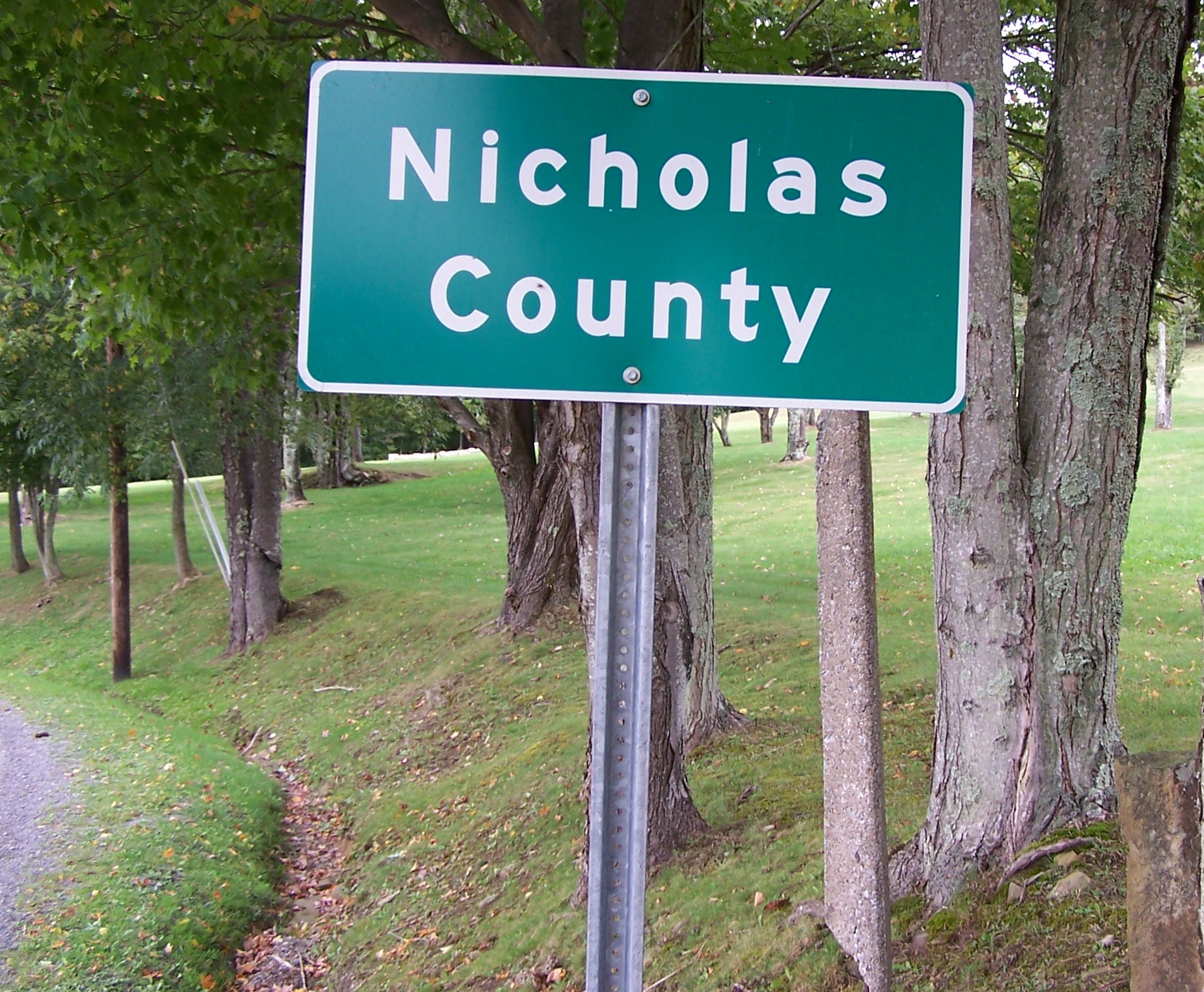 Self-made photo of the markers of the border between Nicholas County, West Virginia, and Greenbrier County, West Virginia located along Greenbrier Road (Nicholas county Route 39-11/Greenbrier County Route 39-1) near Richwood, West Virginia taken on September 24, 2006. (Note: the sign itself, and not the photograph, is crooked)